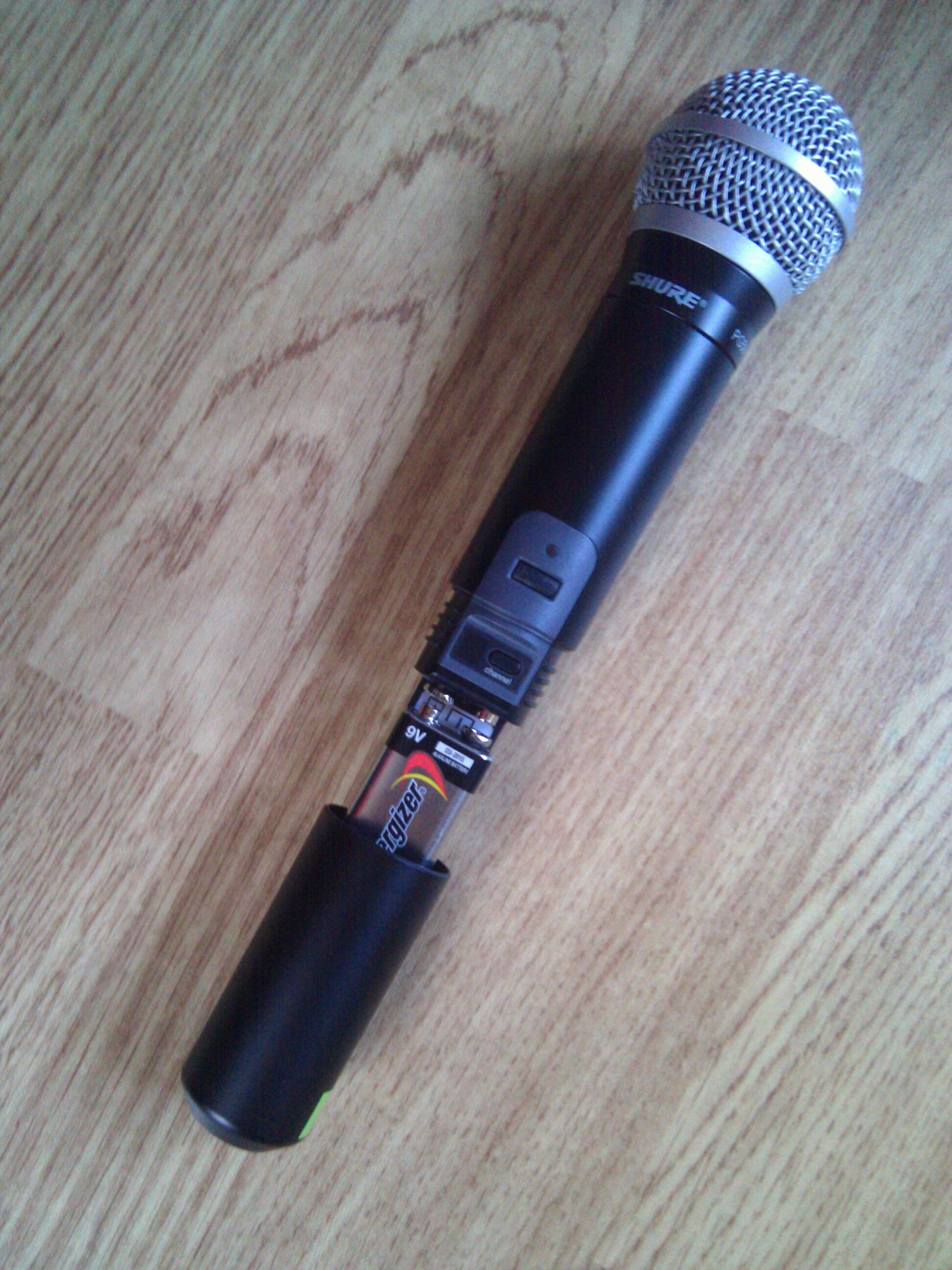 Shure PG58 with PG2 wireless microphone - battery